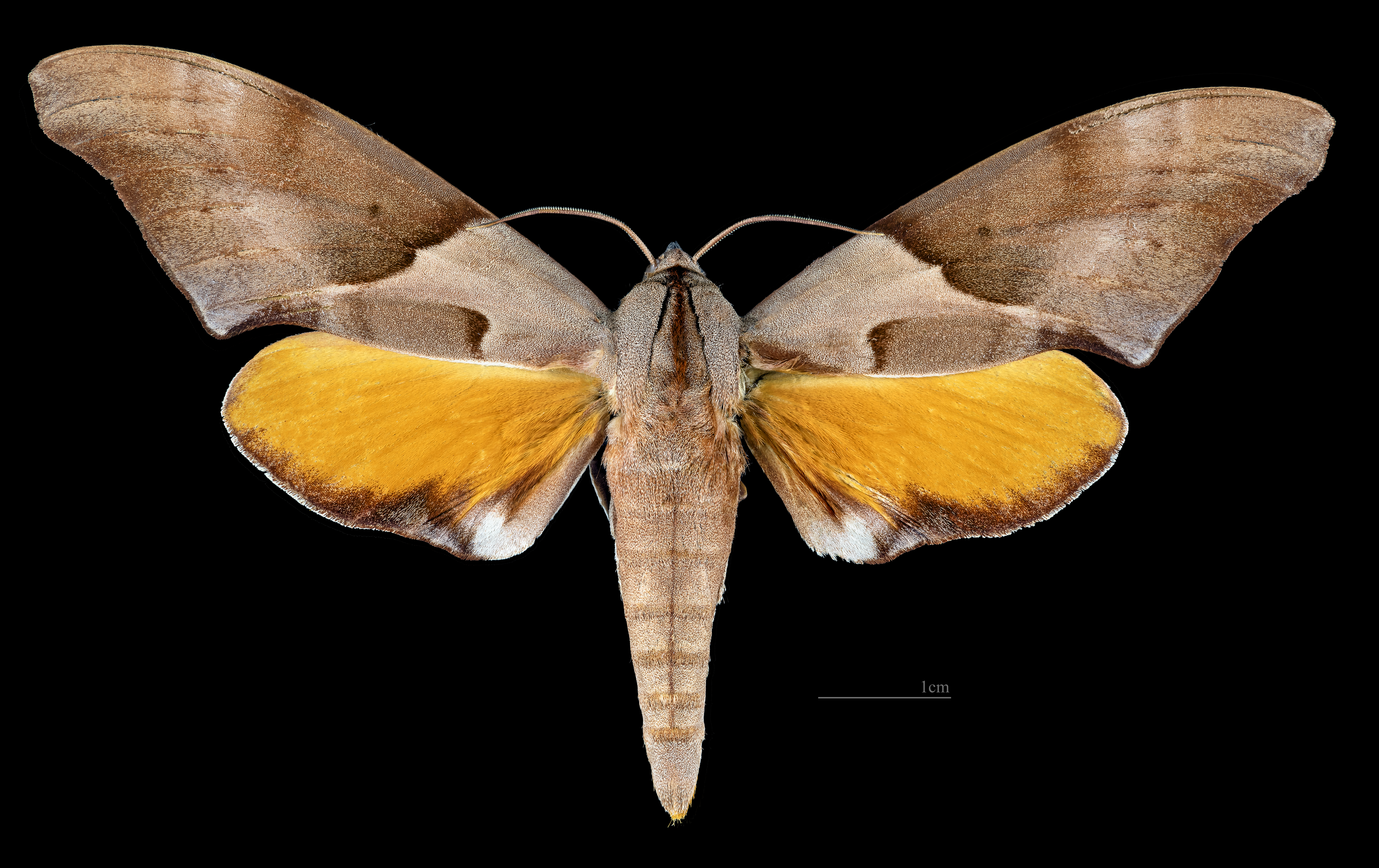 Coequosa australasiae - Dorsal side Collection of the Mathematician Laurent Schwartz